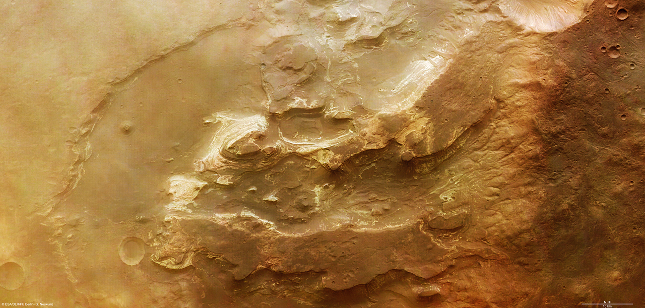 This image of Terby crater was derived from three HRSC colour channels and the nadir channel of the High Resolution Stereo Camera (HRSC) on board ESA’s Mars Express orbiter. The Terby crater region is of great scientific interest as sediments there hold information on the role of water in the history of the planet. The image data was obtained on 13 April 2007 during orbit 4199, with a ground resolution of approximately 13 m/pixel. The Sun illuminates the scene from the west (from above in the image). Terby crater lies at approximately 27° south and 74° east. It is located at the northern edge of the Hellas Planitia impact basin in the southern hemisphere of Mars. The crater, named after the Belgian astronomer Francois J. Terby (1846 – 1911), has a diameter of approximately 170 km. The scene shows a section of a second impact crater in the northern part of Terby crater.